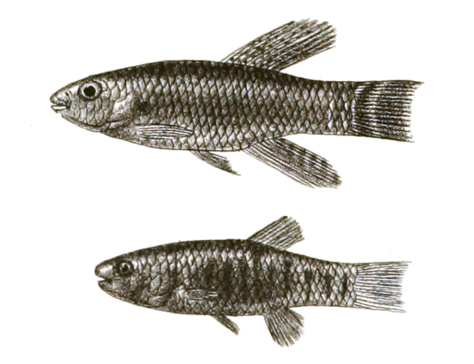 The species names / identity need verification - original names from plate are included here. The original plates showed the fishes facing right and have been flipped here. Cyprinodons dispar (male and female)